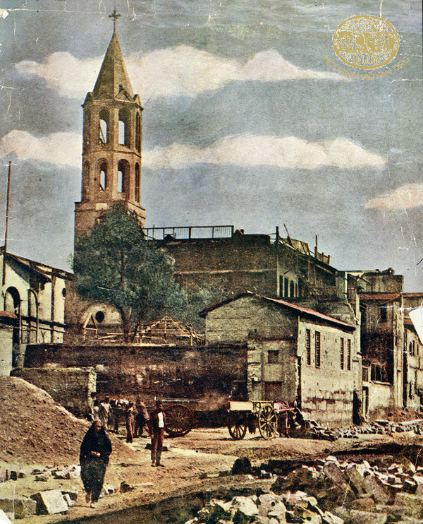 1900-c.Adana: Holy Mother of God Church and bell tower and the Ashekian house on the south.